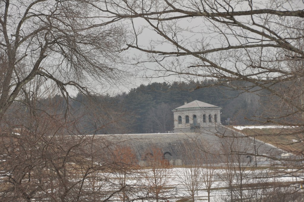 Sudbury Dam in Framingham and Southborough, Massachusetts. Located in Sudbury Reservoir State Park.